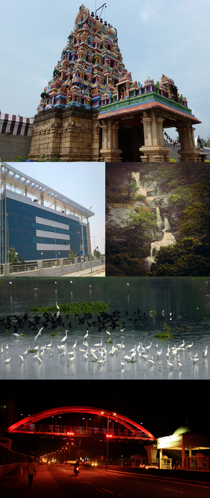 Montage of Coimbatore